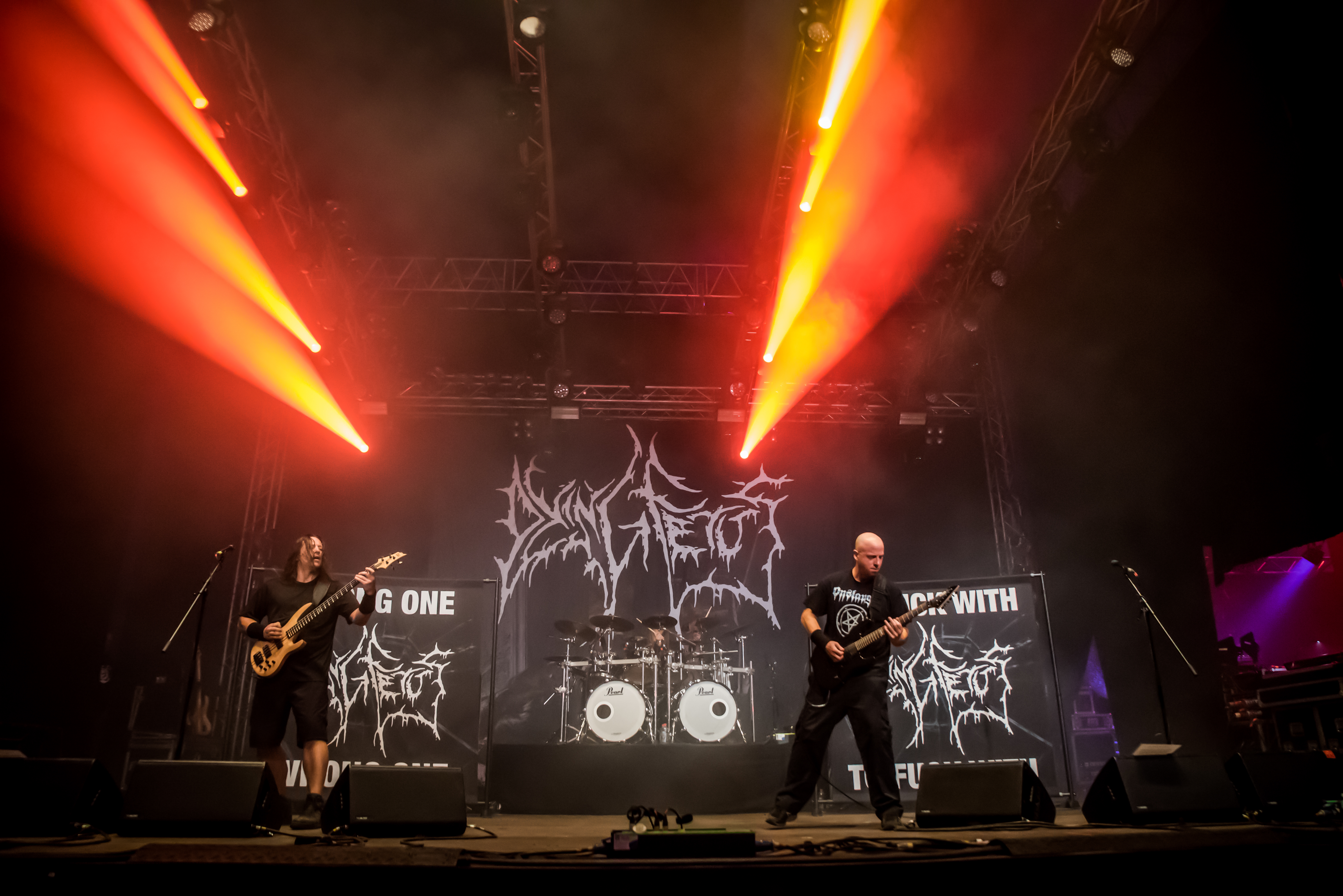 Dying Fetus - Wacken Open Air 2018